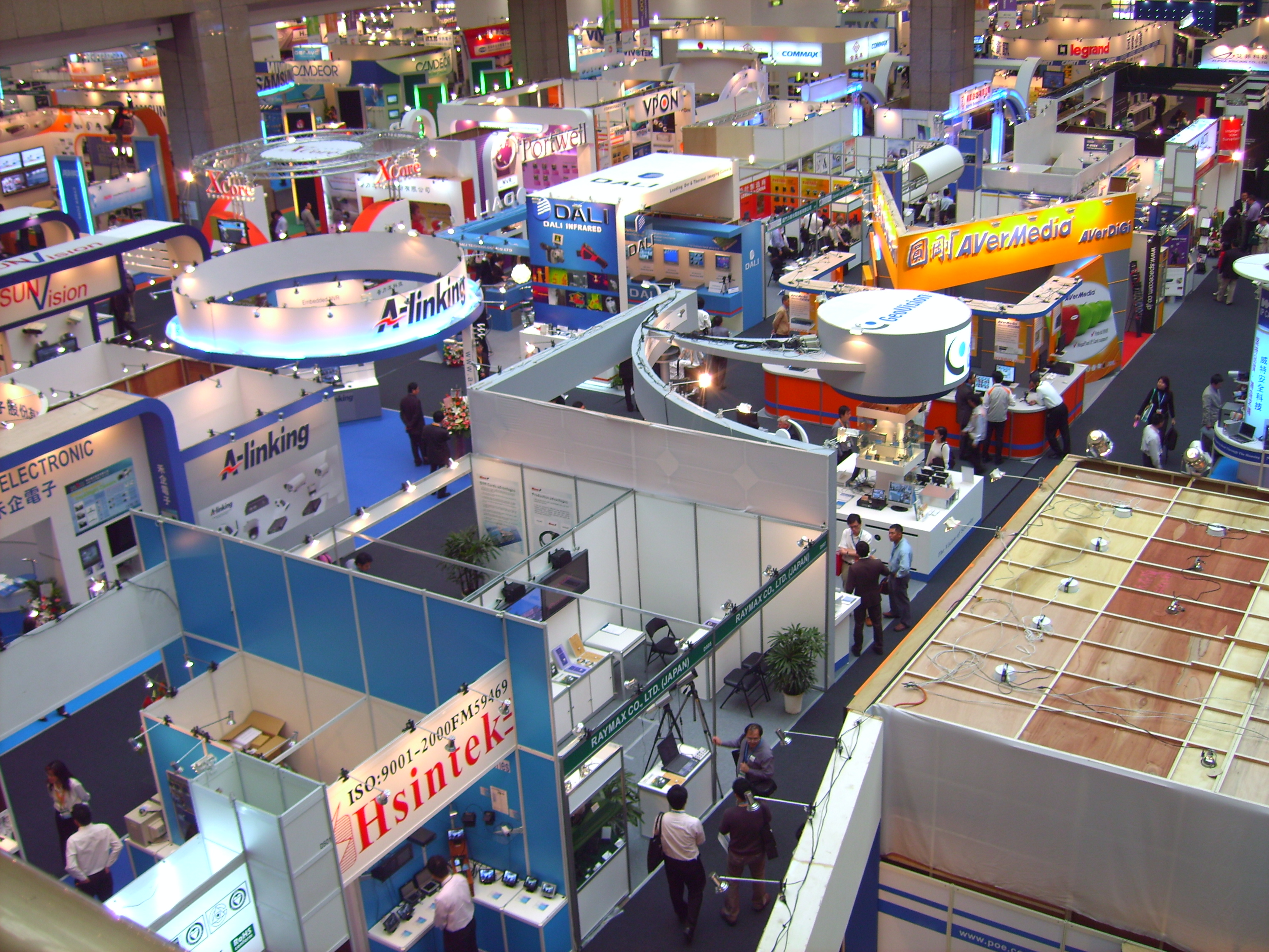 A view from 2007 SecuTech Expo.